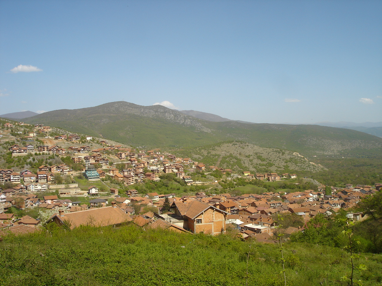 village of Labuništa, neat Struga, Macedonia